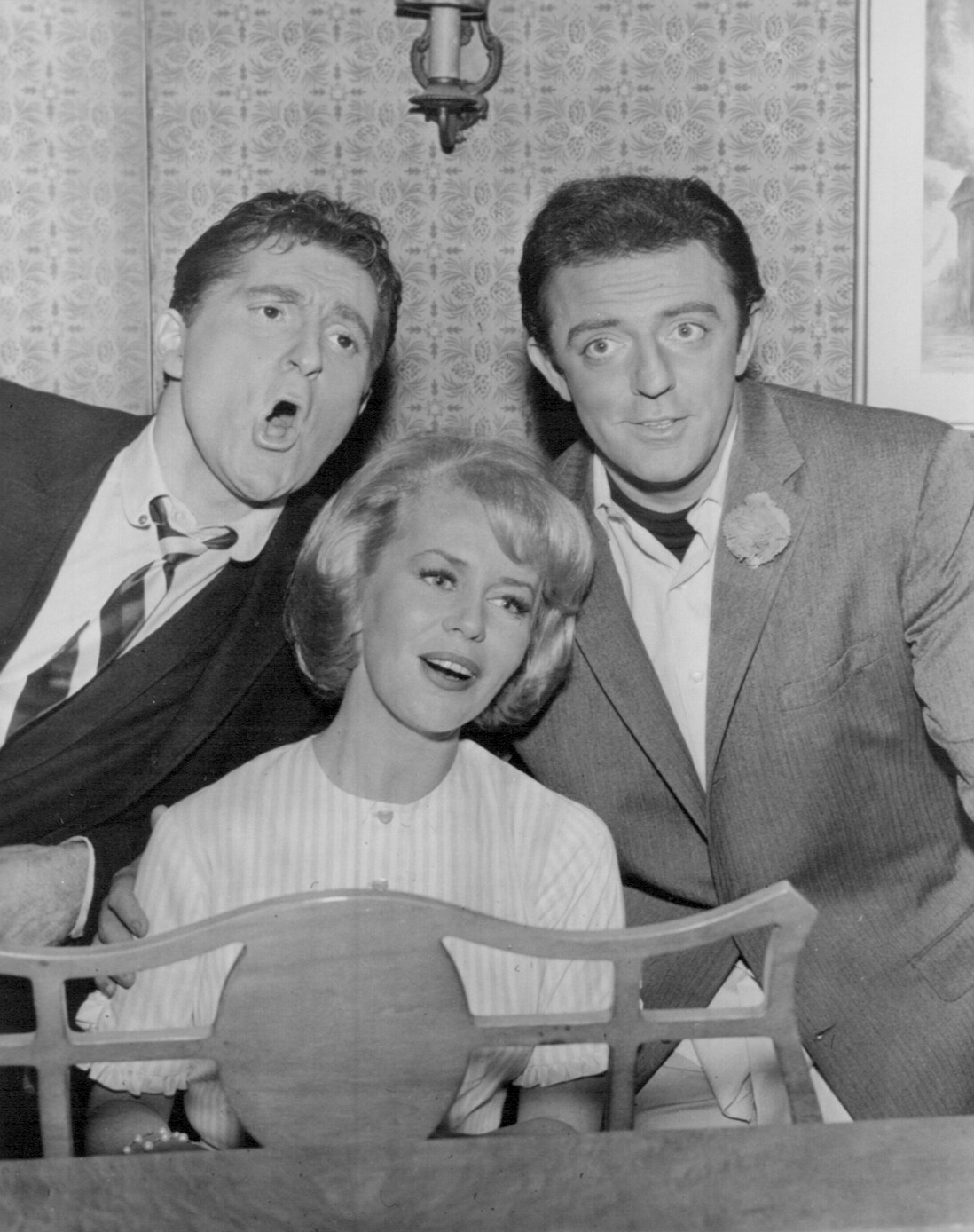 Cast of the television comedy I'm Dickens, He's Fenster. From left: Marty Ingels (Arch Fenster), Emmaline Henry (Kate Dickens) and John Astin (Harry Dickens).